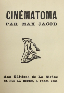 Front cover of Cinématoma by Max Jacob, Paris, éditions de La Sirène, 1920.